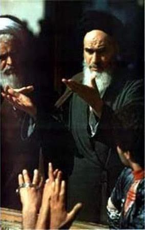 Ruhollah Khomeini